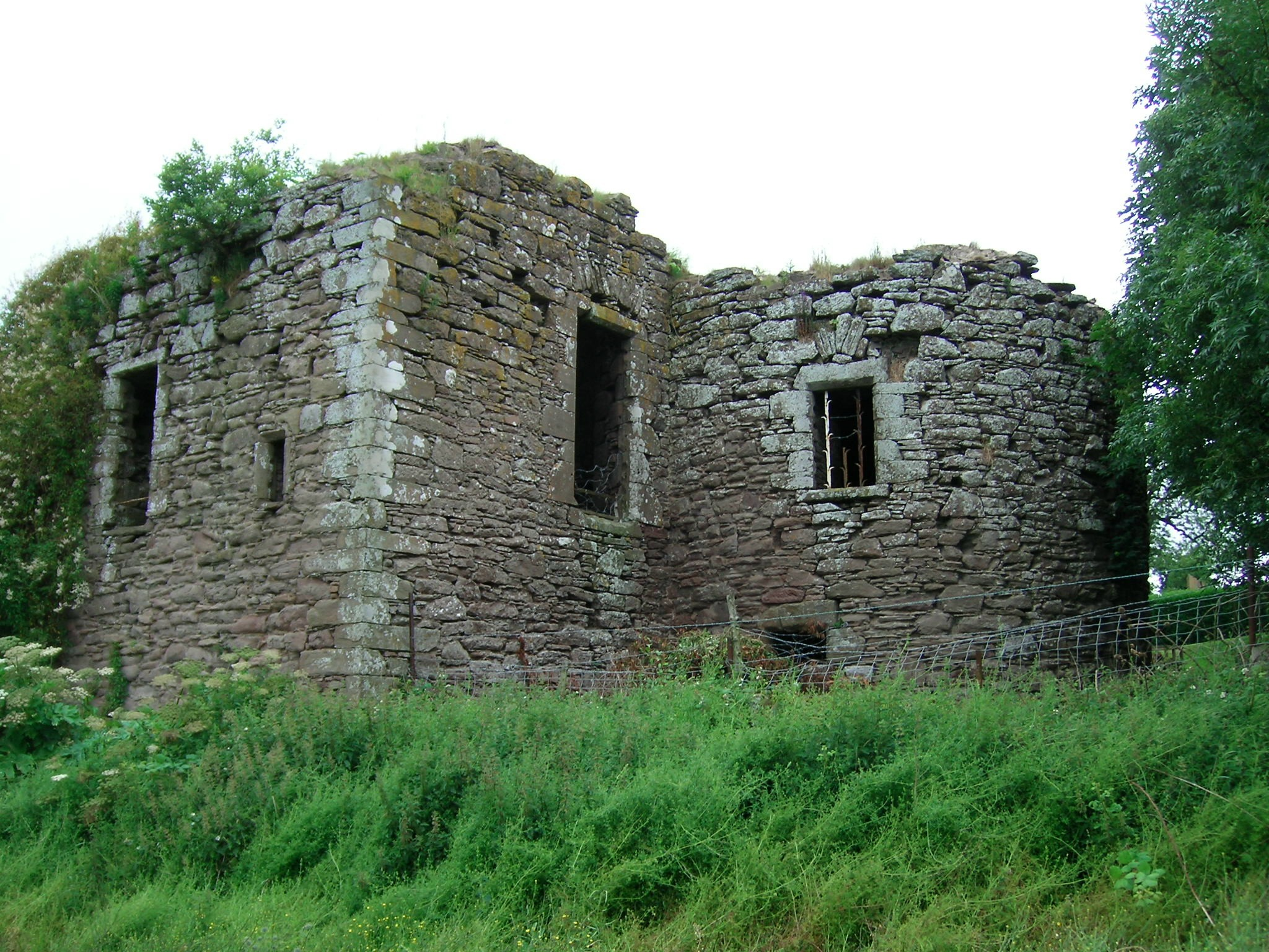 Powrie Castle, Dundee, United Kingdom. South Wing viewed from the South East. The castle is on private property so this is the best shot I could get of it at the time. I had to climb in to an adjecent field to get this picture.